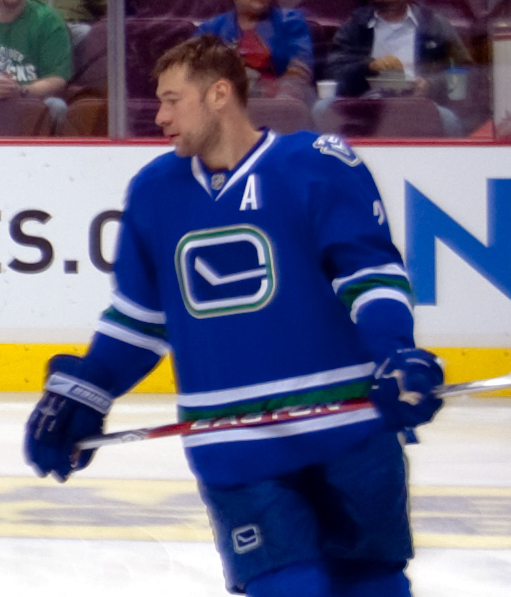 Mattias Ohlund of the Vancouver Canucks warming up at GM Place in Vancouver before playing the Dallas Stars on March 17, 2009.